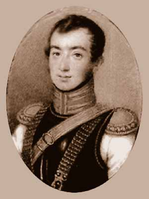 The Decembrist' poet Alexander Odoyevsky